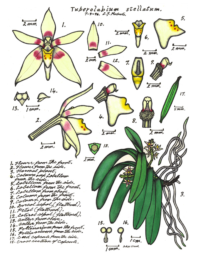 This image is one of a series by Lewis Roberts